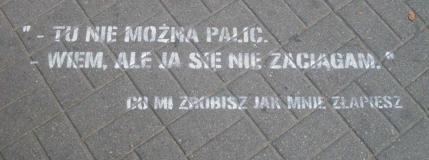 Quotation from polish film "What You Make How Catch Me". Painting at pavement 10 Lutego Street in Gdynia. Promote Polish Film Festival in Gdynia.